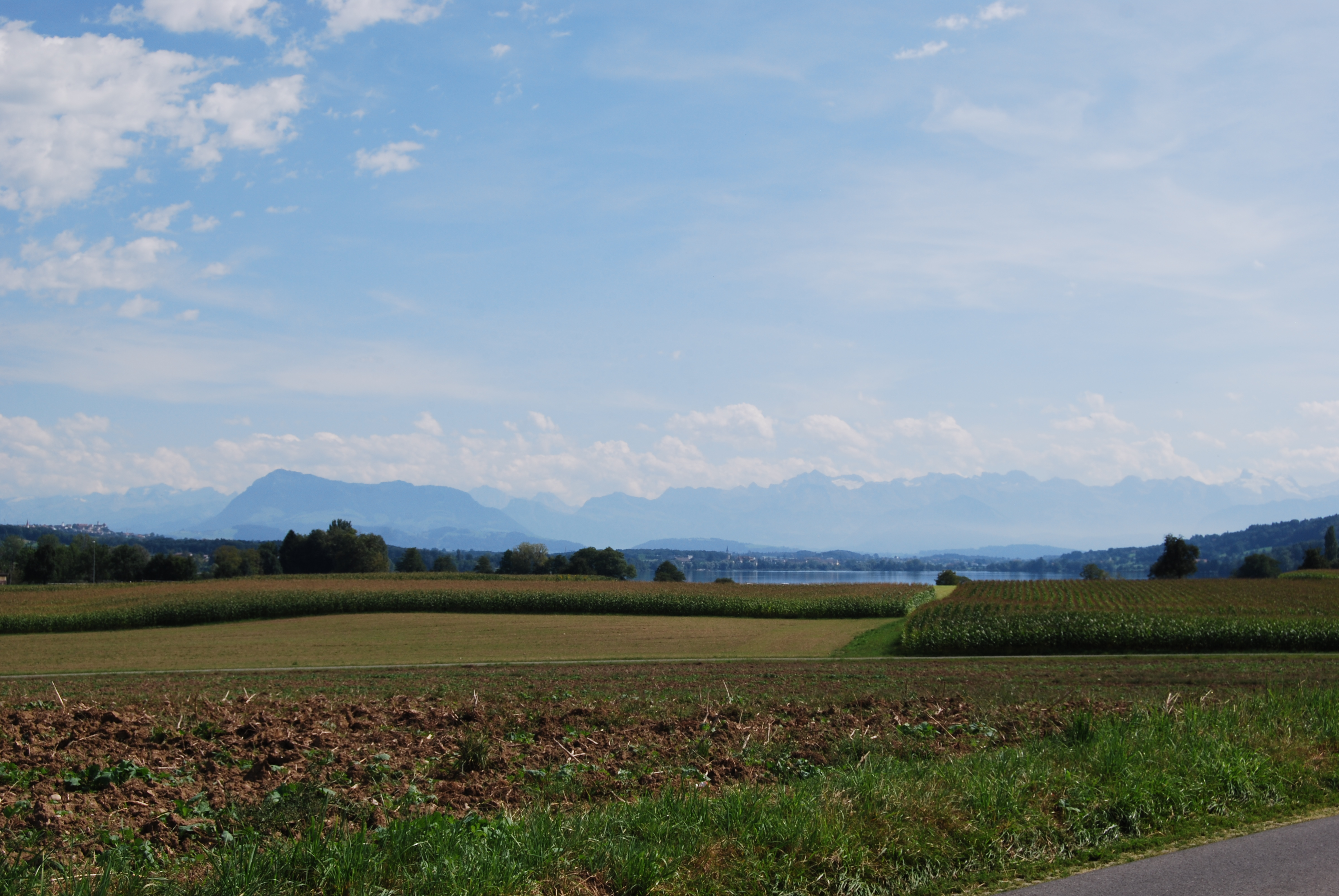 Lake Baldegg seen from the village entry of Ermensee, canton of Lucerne, Switzerland